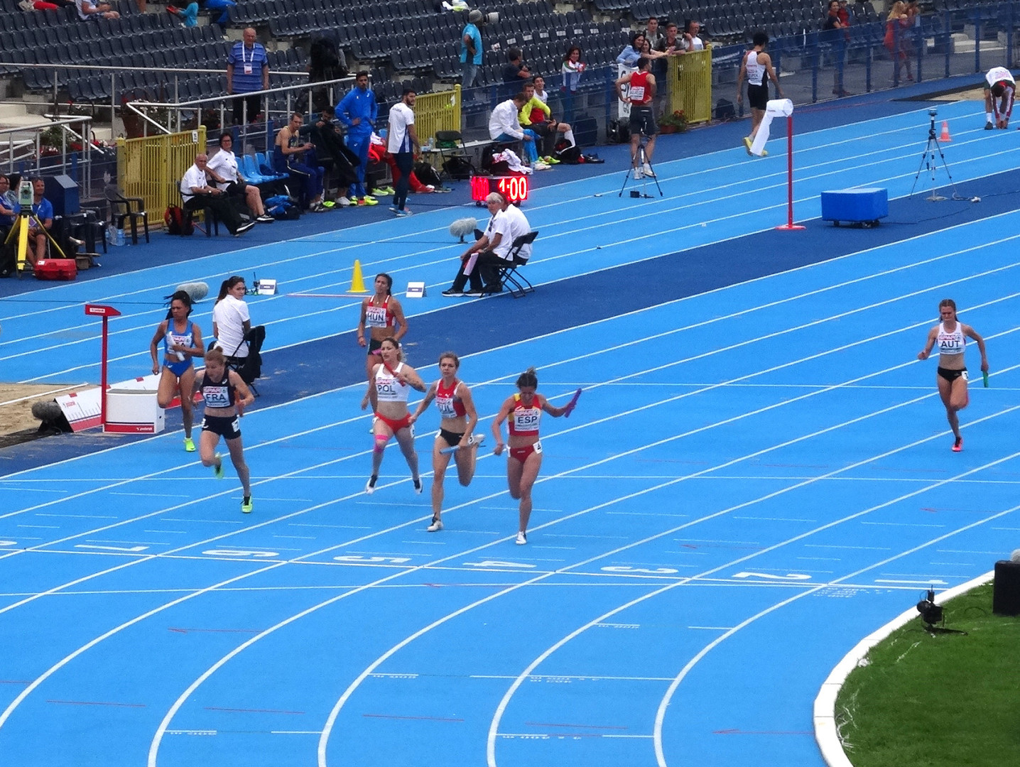 2017 European Athletics U23 Championships, 4x100m relay women final